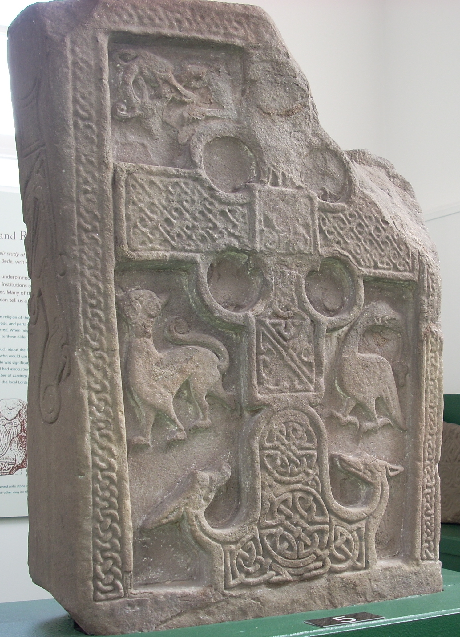 Meigle 5 from the Meigle, Scotland, a Pictish symbol stone dating from the 8th or 9th century AD.